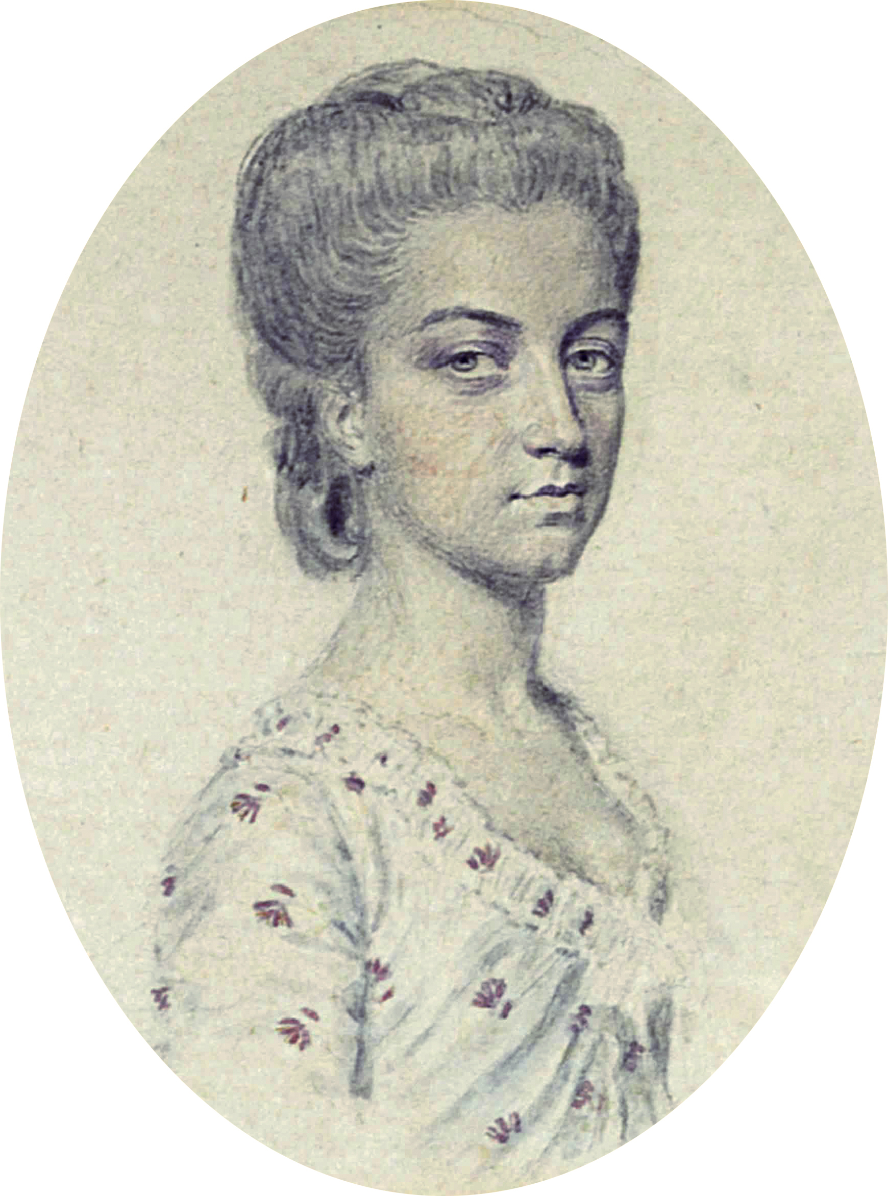 A preparatory sketch of Elizabeth Bridget Armitstead née Cane (1750-1842) pencil and watercolour on card 47 mm x 54 mm